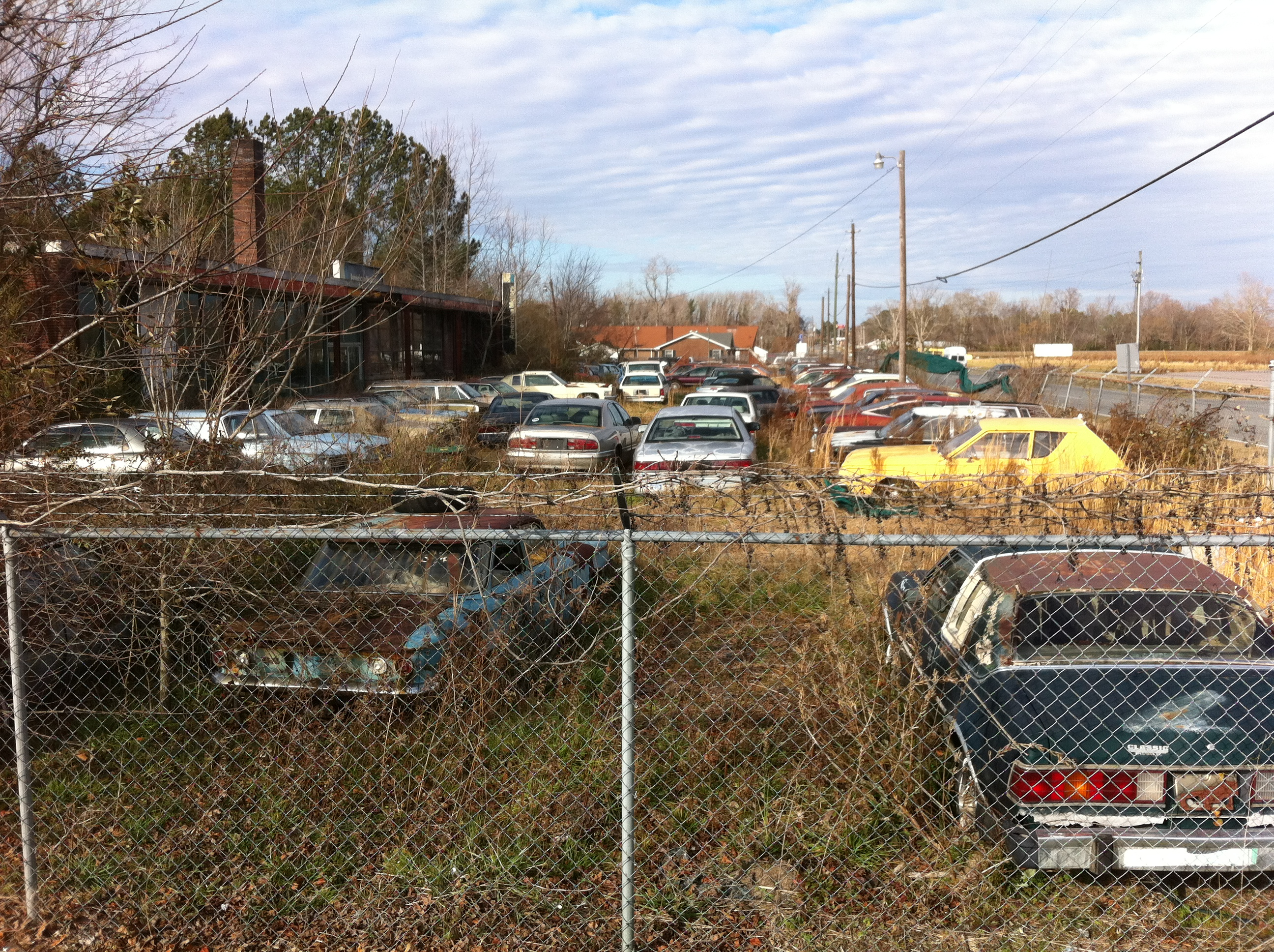 Collier Motors is an automobile business on U.S. Route 117 (non-freeway) in Pikeville, North Carolina. It lost its American Motors Corporation (AMC) dealership franchise in 1980, but still has various AMC, Jeep, and other vehicles on its premises.